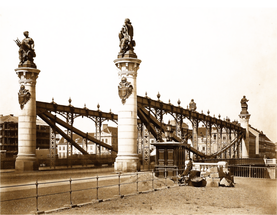 The Maria-Theresien-Brücke (Maria Theresia bridge) in Vienna